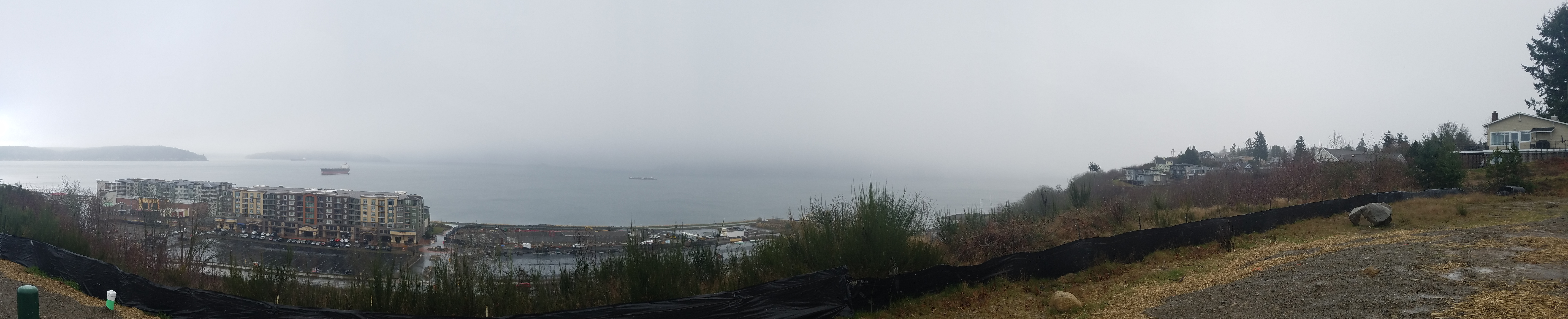 Panorama of Point Ruston apartments and the Puget Sound.